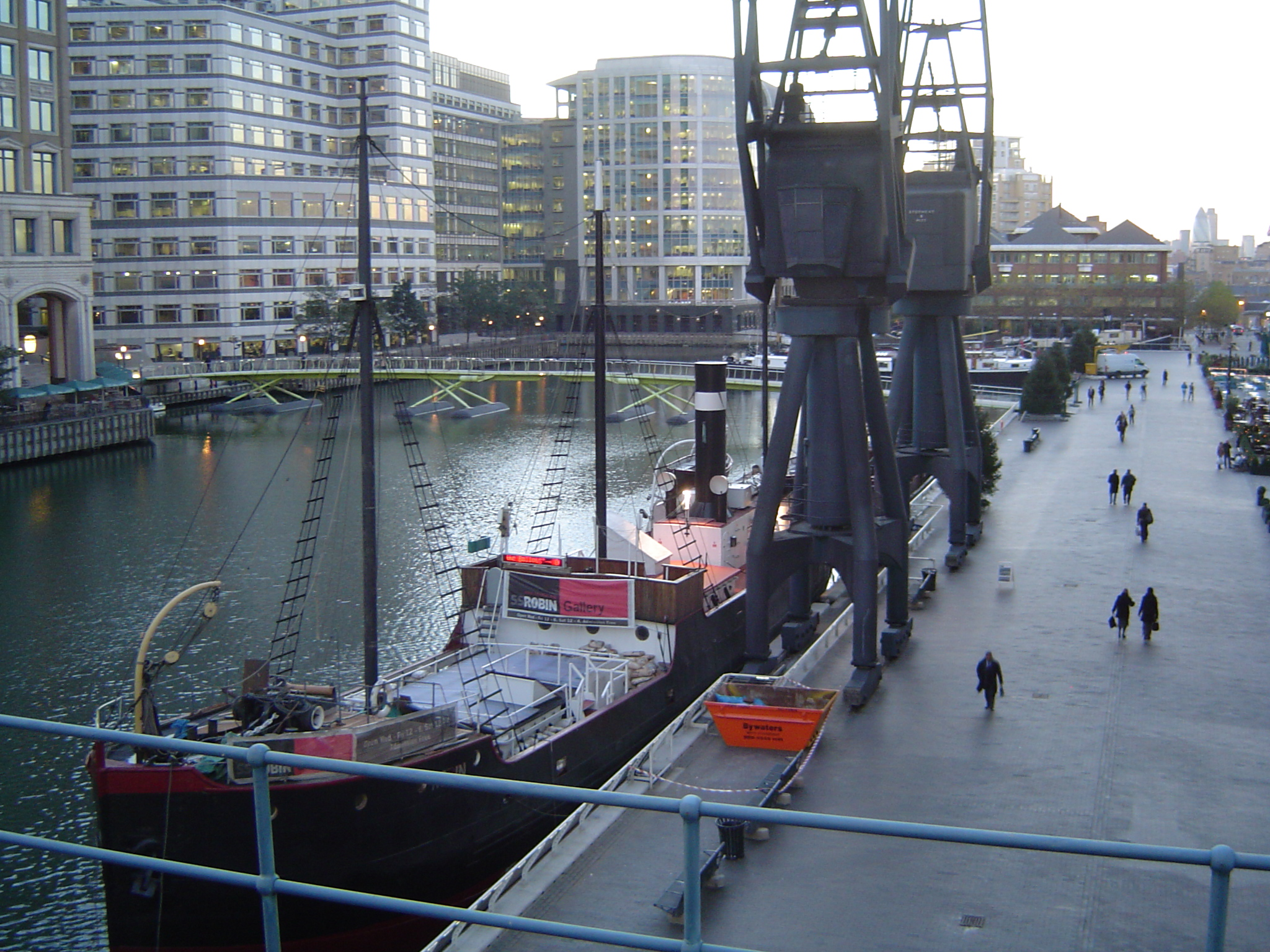 SS Robin, West India Quay, London, UK